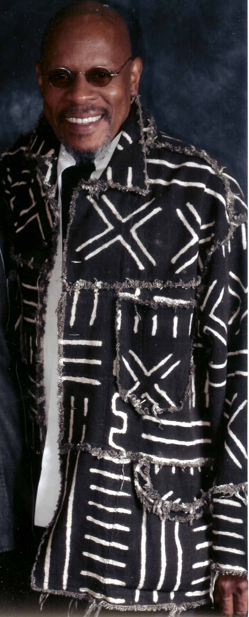 A photo of Avery Brooks at the 2007 Armageddon convention in Christchurch New Zealand on the 26 of April 2008.